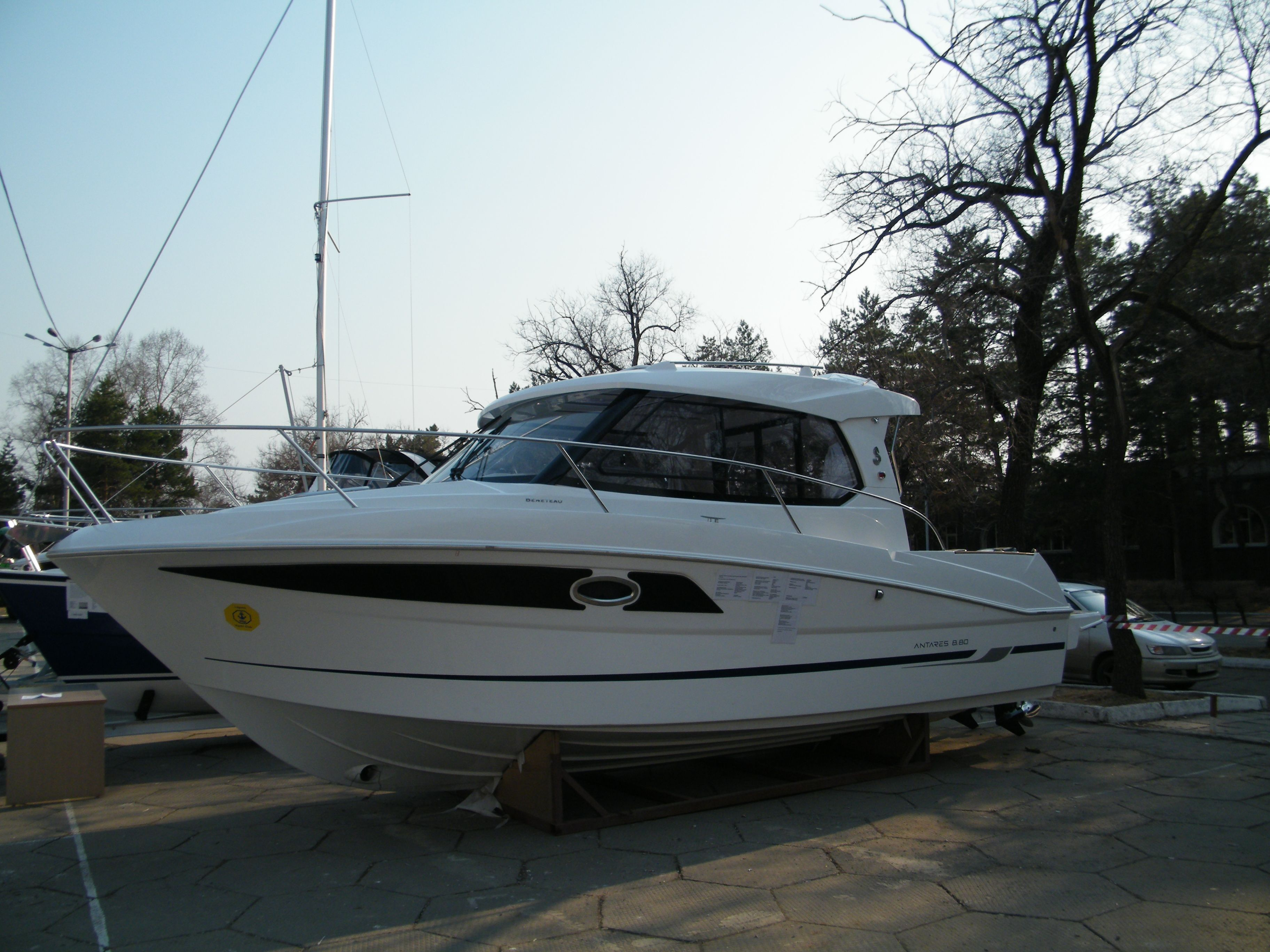 Катер Antares-8.80 с двумя мощными подвесными моторами